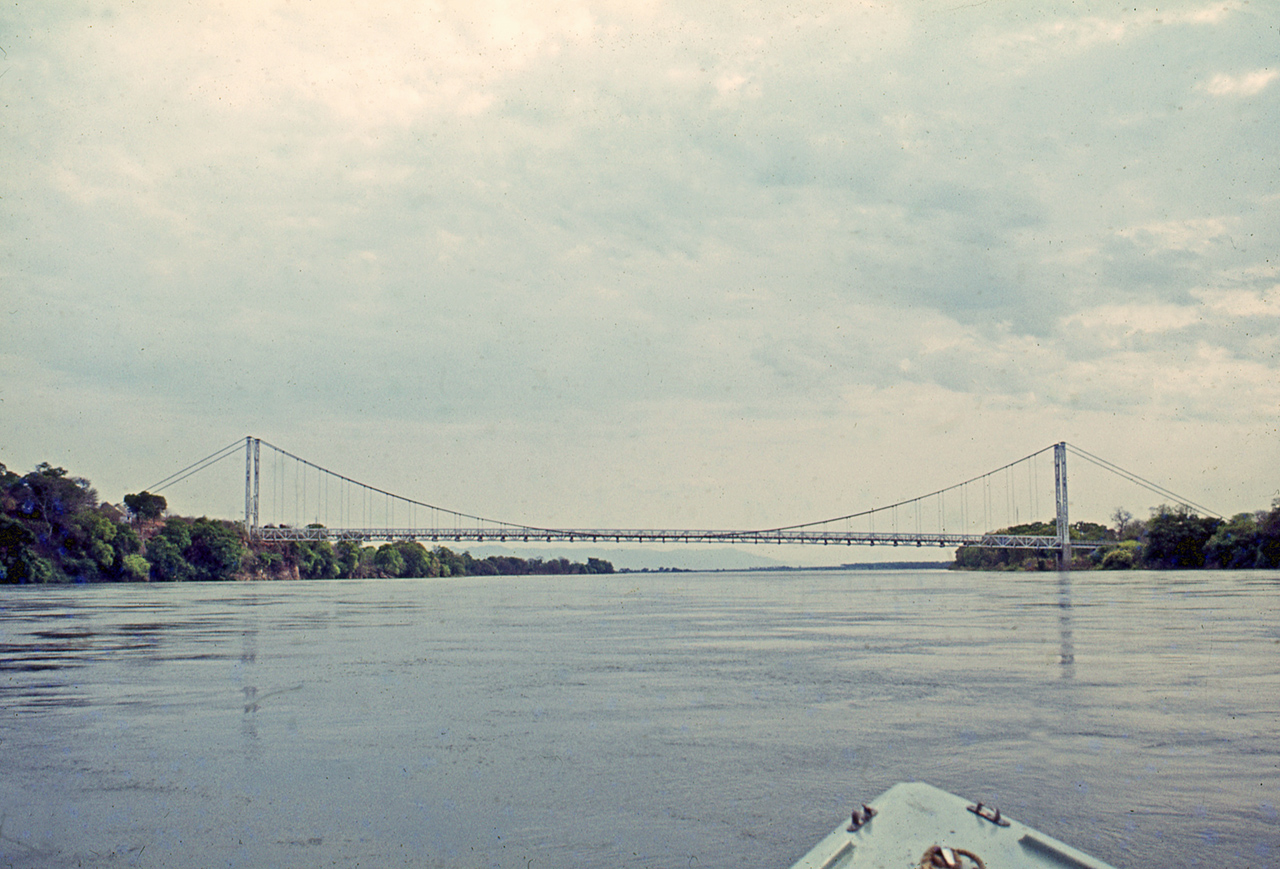 The Otto Beit Bridge (Chirundu Bridge) over the Zambezi River between Zambia and Zimbabwe